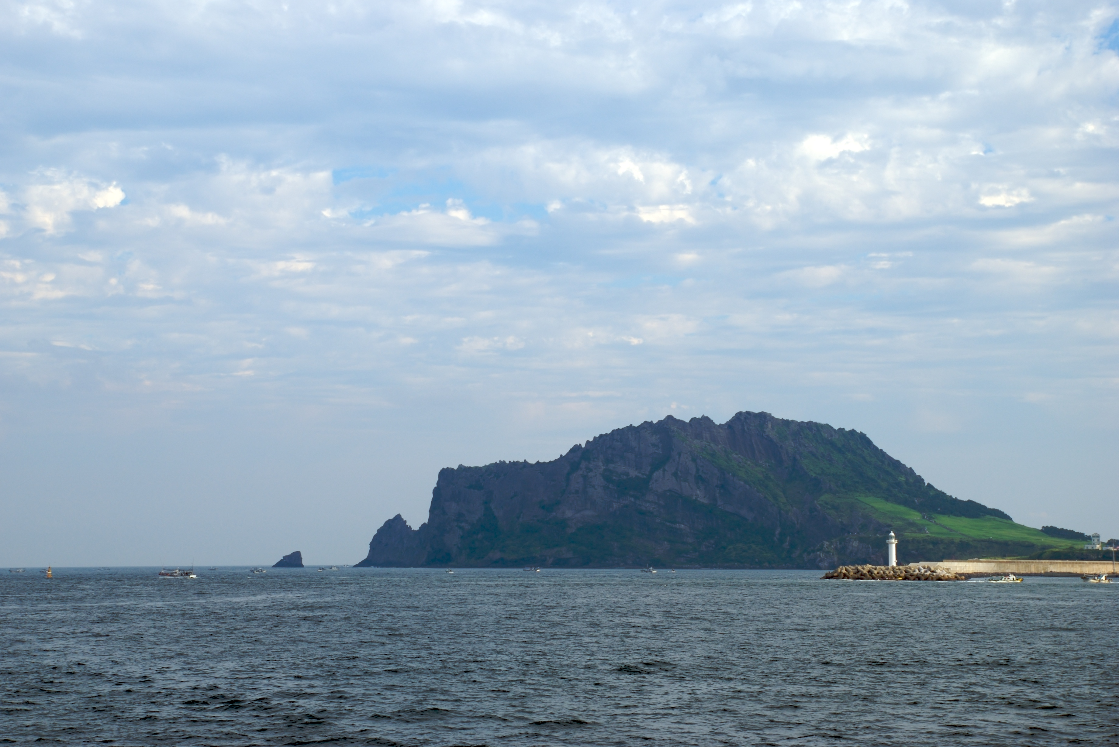 Photograph of Seongsan Ilchulbong at Jeju-do, South Korea, which was taken from the ocean.